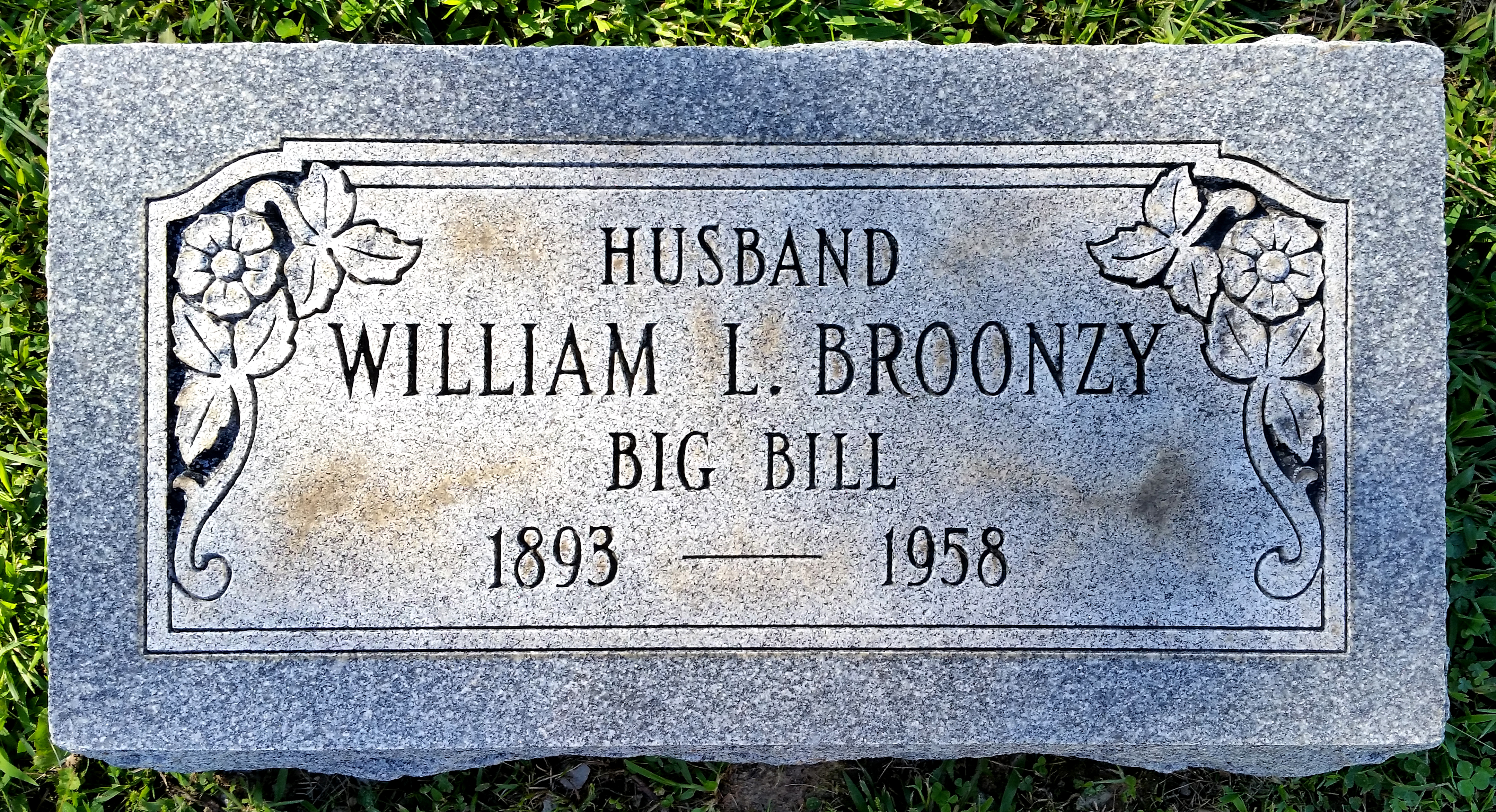 Big Bill Broonzy's Grave Stone